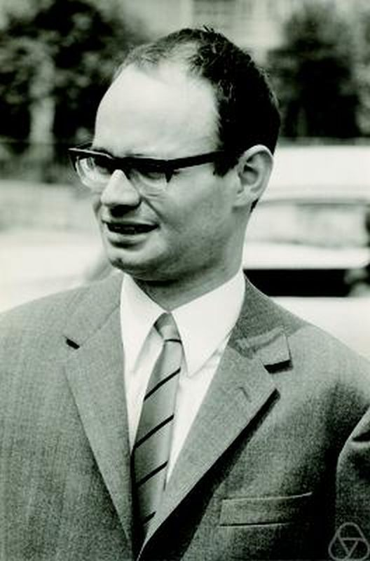 Klaus Lamotke, Bonn, June 1967